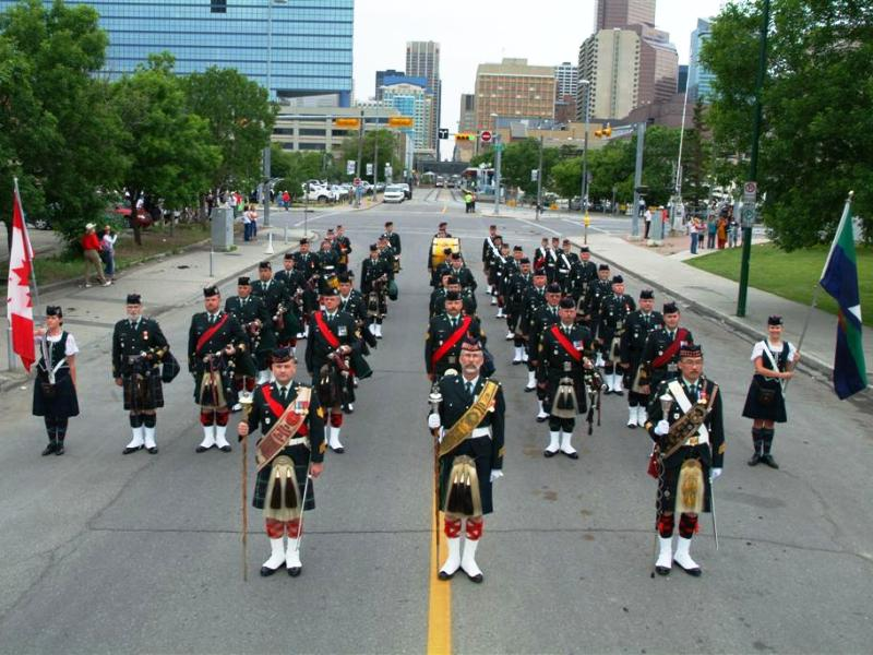 Publicity Photo, public domain